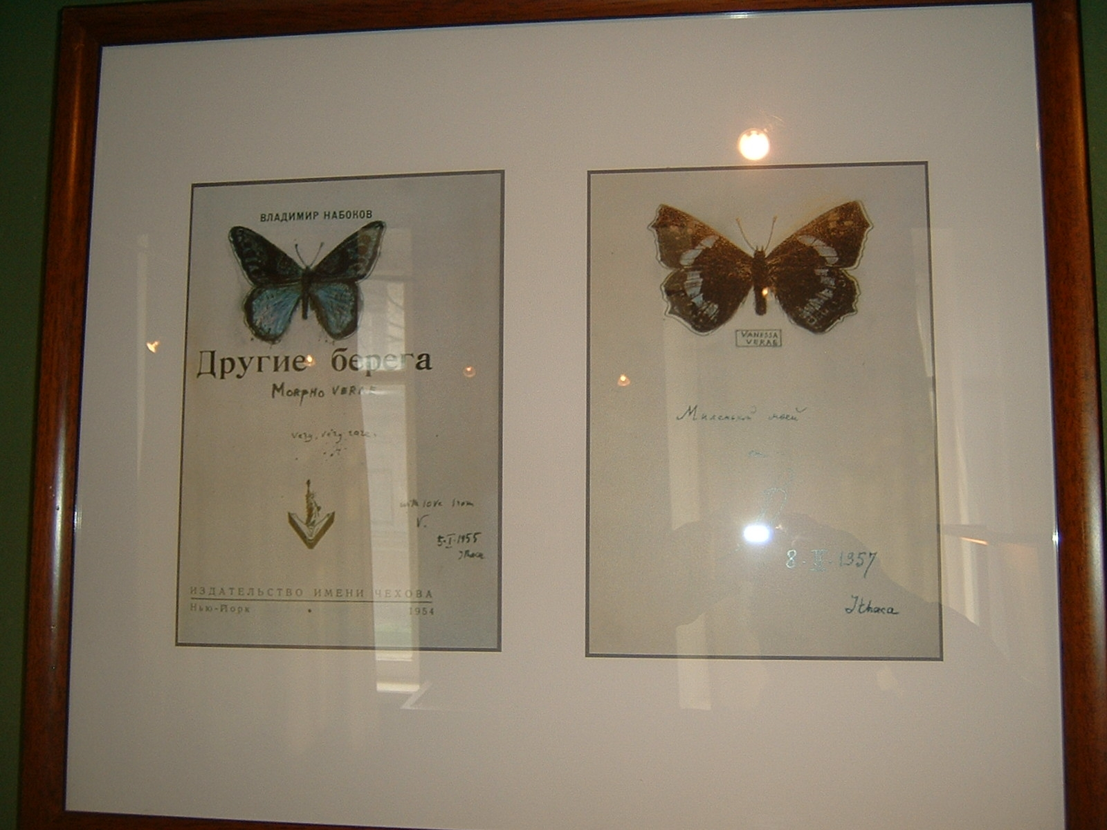 Butterflies colected by Vladimir Nabokov Colection of Nabokov House